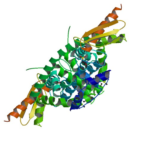 Structure of RNaseIIIb and dsRNA binding domains of mouse Dicer as provided by RCSB.